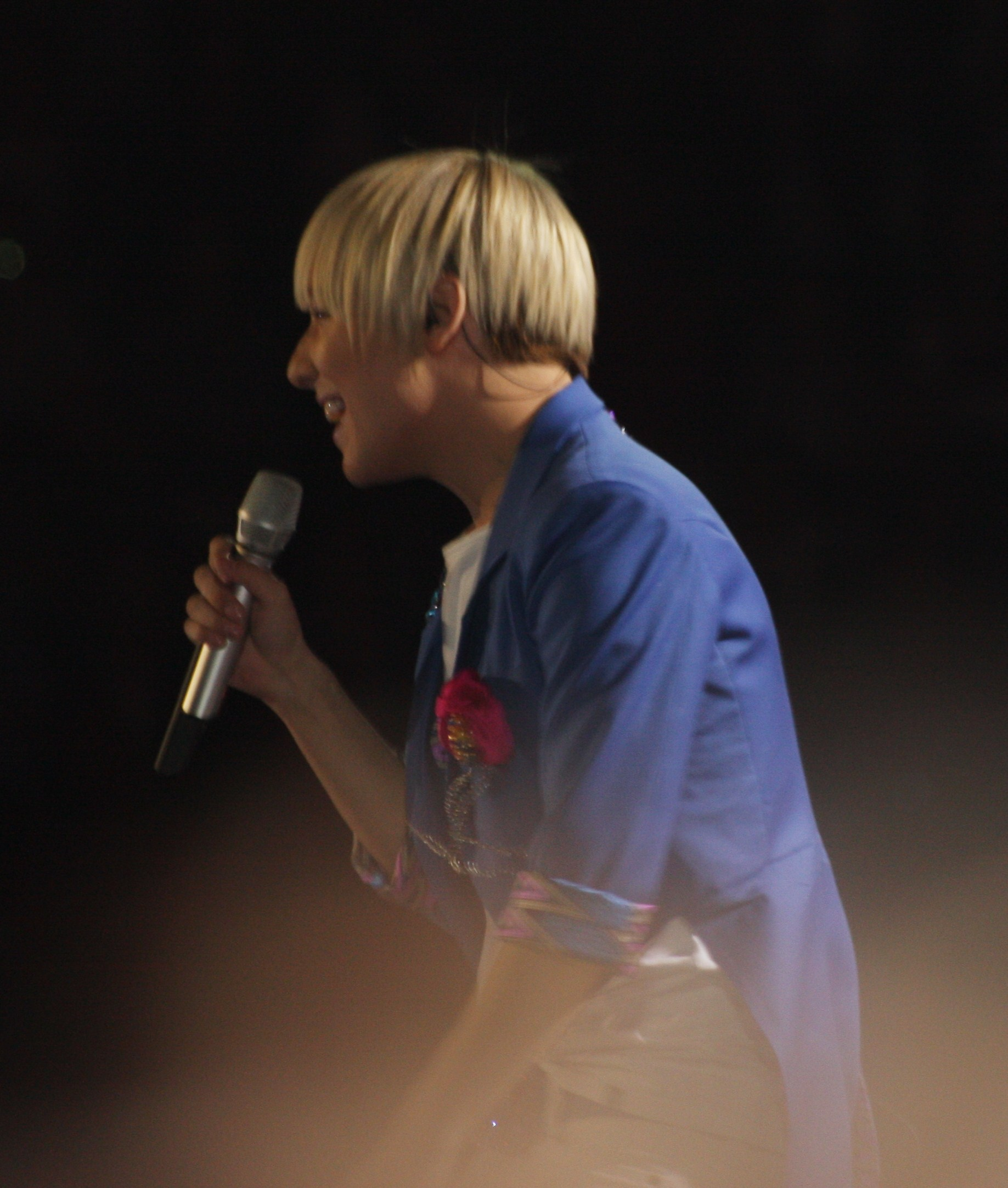 Milan Stankovic, Serbia's contestor at ESC 2010, Telenor Arena, Norway.